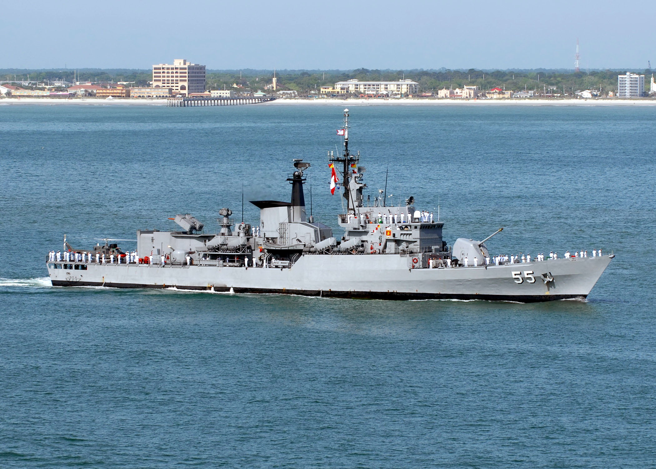 090504-N-1644C-330 JACKSONVILLE, Fla. (May 04, 2009) The Peruvian ship BAP Aguirre (FM-55), along with ships from other countries participating in Exercise Unitas Gold, takes part in a parade of ships just off the coast of Jacksonville. The Jacksonville area hosted maritime forces from Argentina, Brazil, Canada, Chile, Colombia, Ecuador, Germany, Mexico, Peru, the United States and Uruguay for the 50th iteration of the annual multinational maritime exercise. (U.S. Navy photo by Chief Mass Communication Specialist Anthony Casullo/Released)